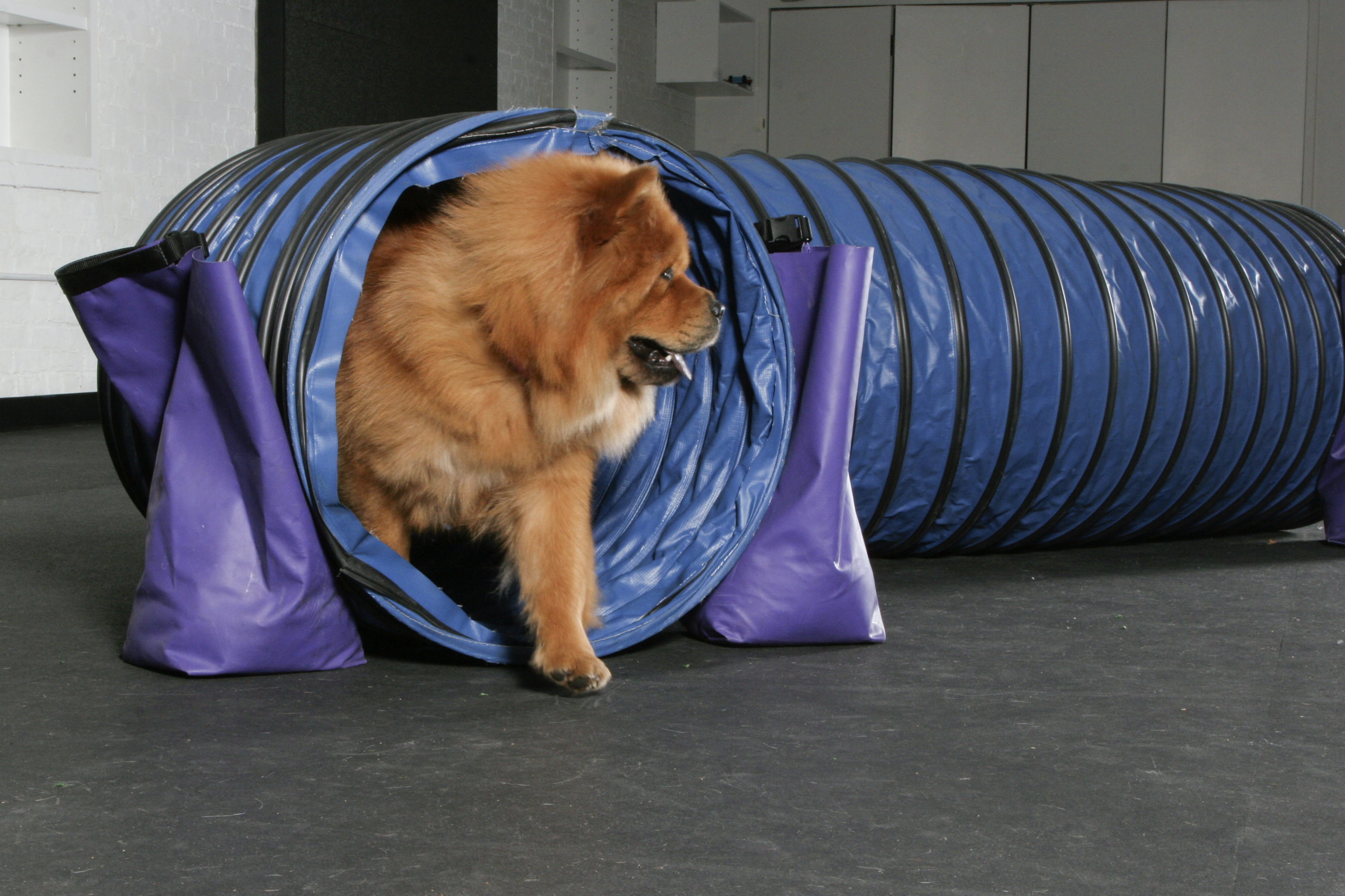 Angel the Chow chow - Tunnel